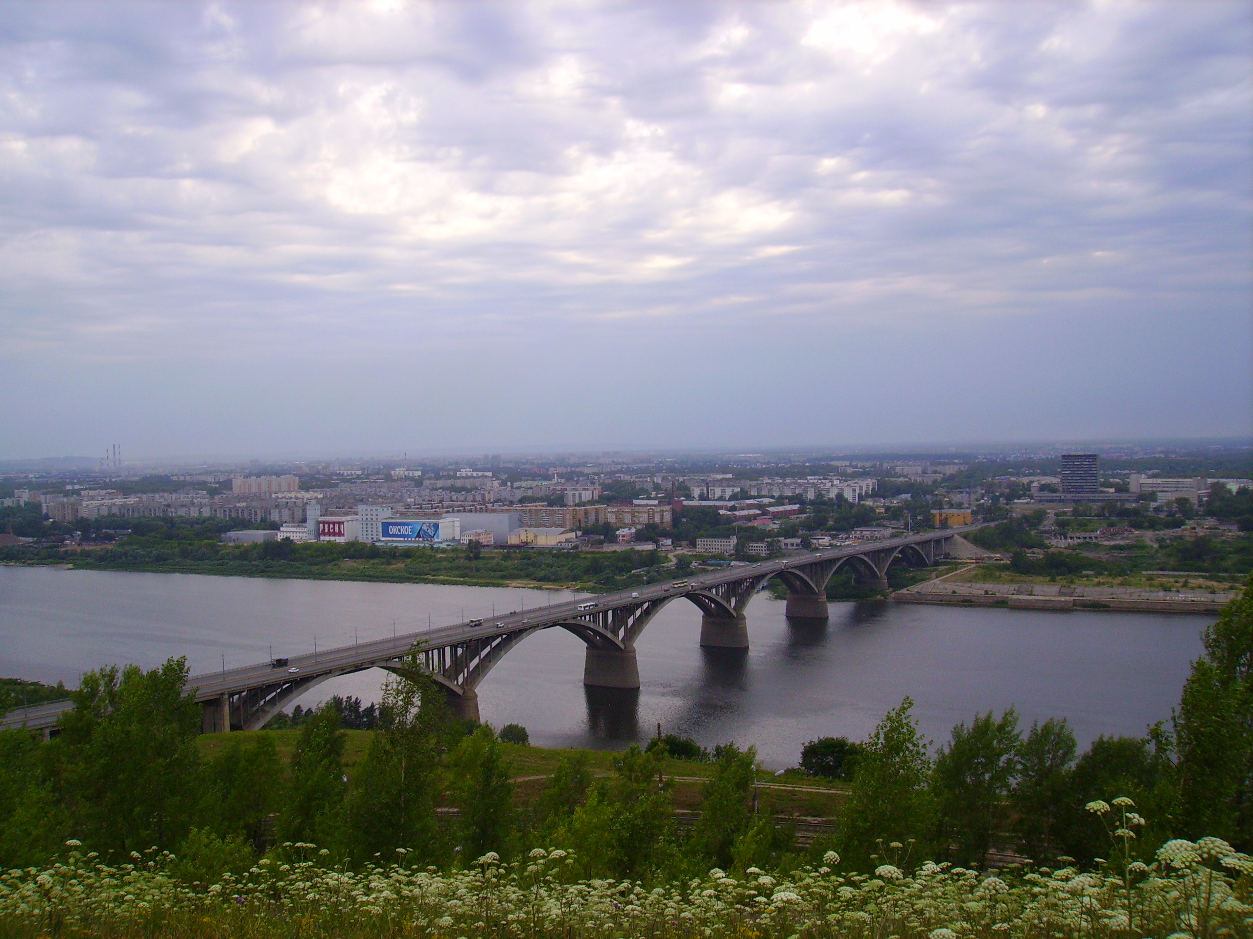 Molitovsky Bridge above the Oka River in Nizhny Novgorod